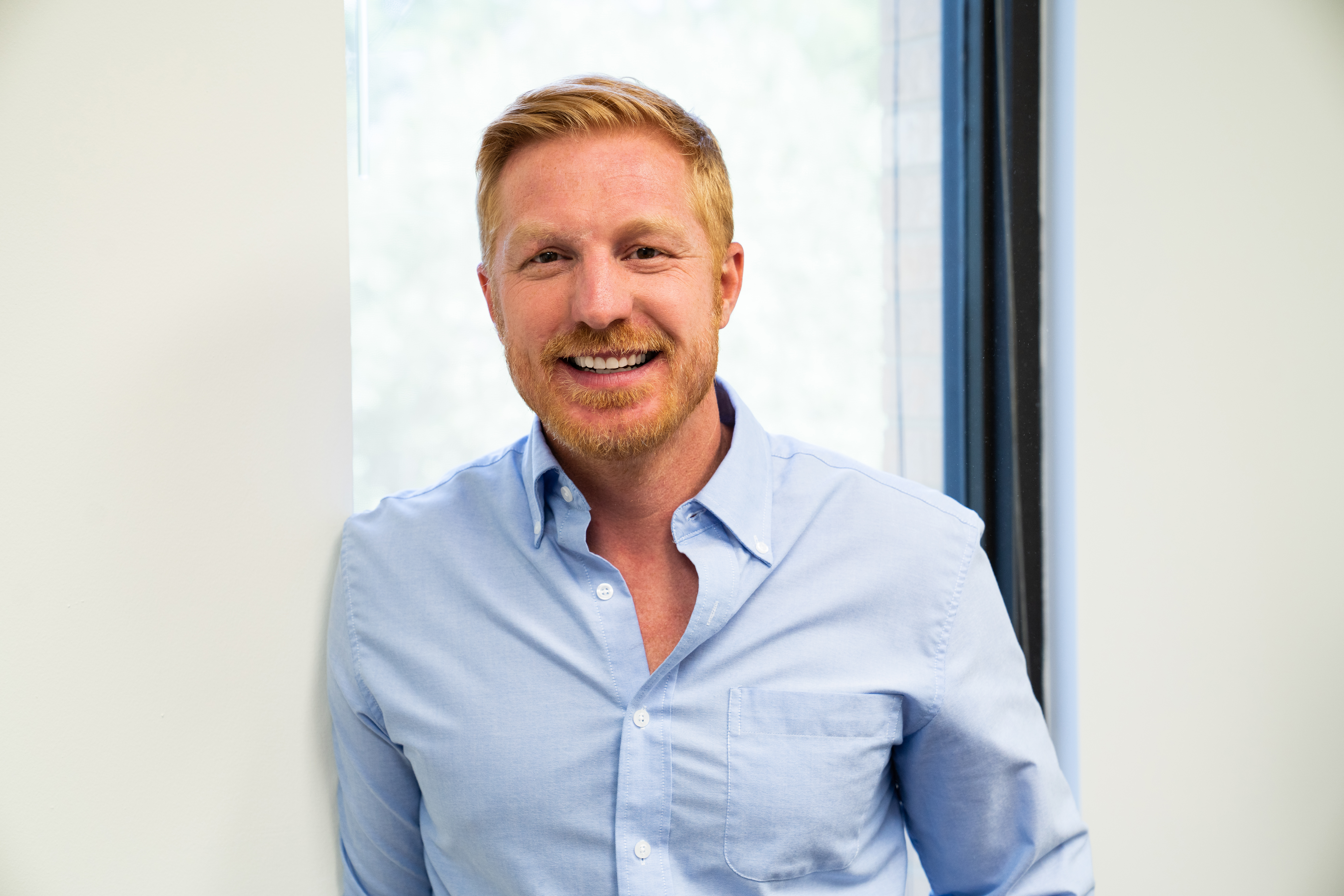 at wide open music